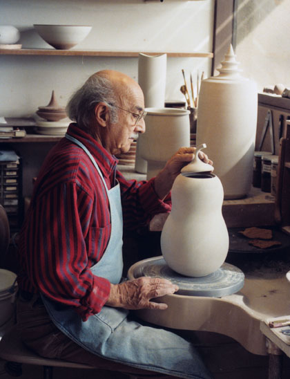 Harrison McIntosh in his Padua Hills studio in 1992. Credit: Marguerite McIntosh